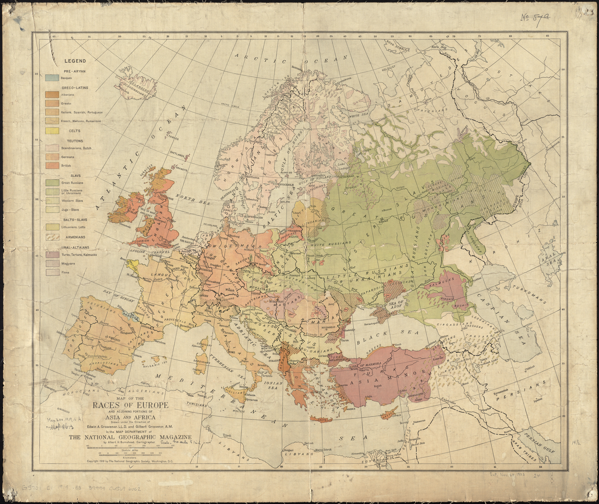 Zoom into this map at . Author: Bumstead, Albert H. Publisher: National Geographic Society Date: 1919 Location: Europe Dimensions: 48 x 59 cm Scale: approximately 1:10,000,000 Call Number: G5701.E1 1919 .B8